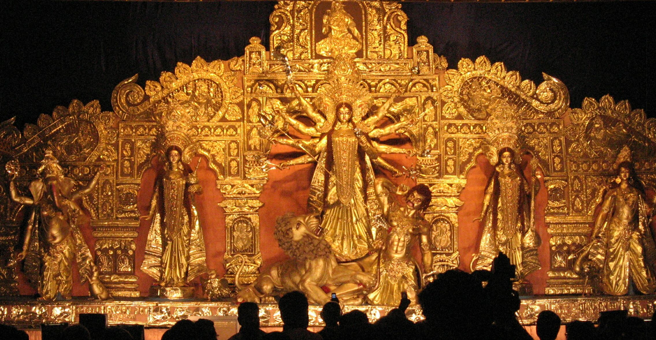 Durga Puja idol at Shreebhumi, adjacent to Lake Town / VIP Road, North East Kolkata.